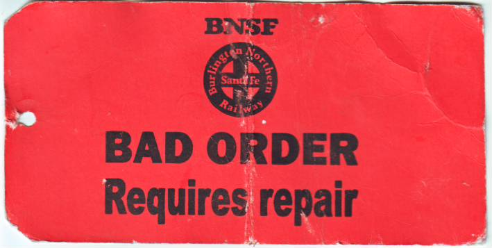 Made it myself, found tag on street outside Corwith Yards